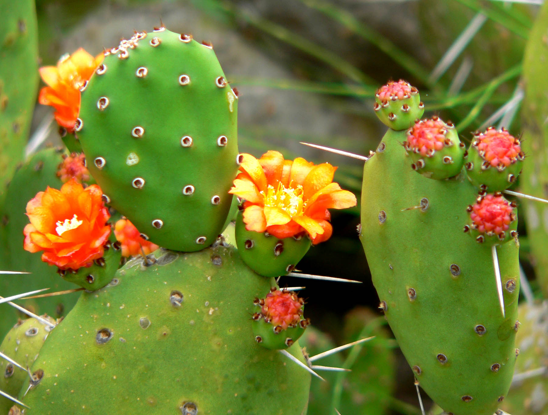 Photo of Opuntia inamoena at the University of California Botanical Garden